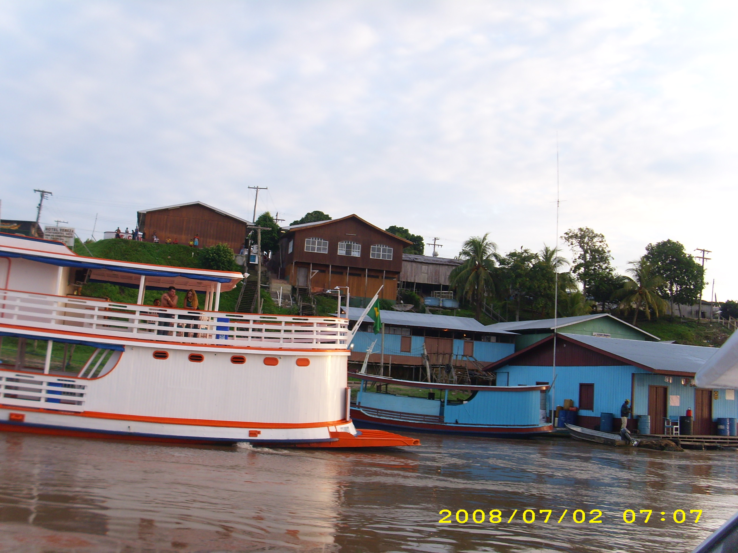 TONANTINS(AM)